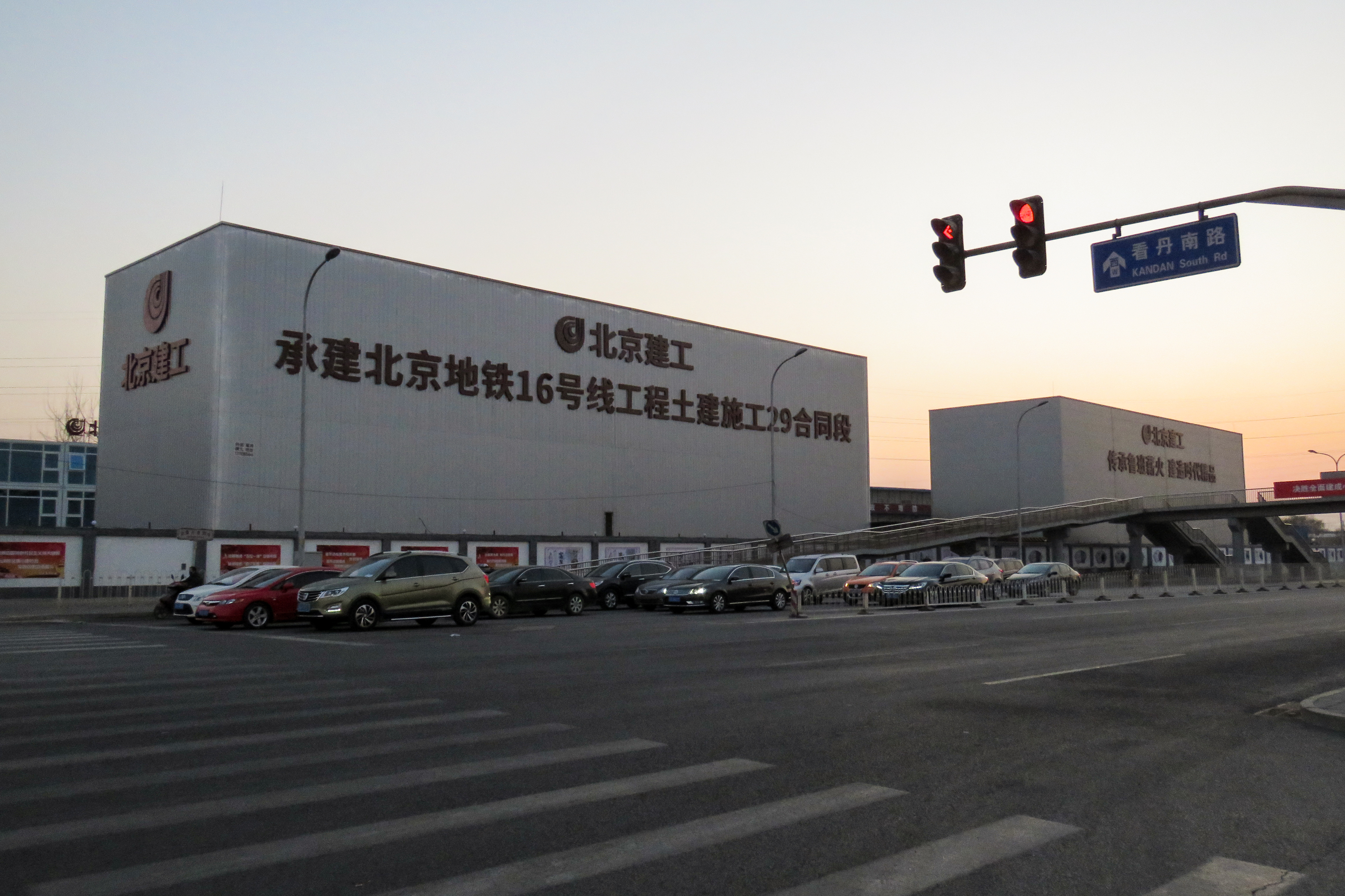 Unlocked another new station, only to miss another station: Fufengqiao.